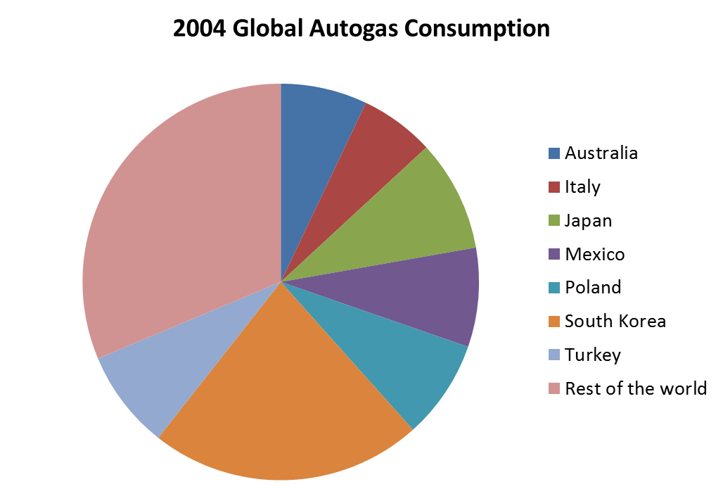 2004 Global Autogas Consumption graph. Data